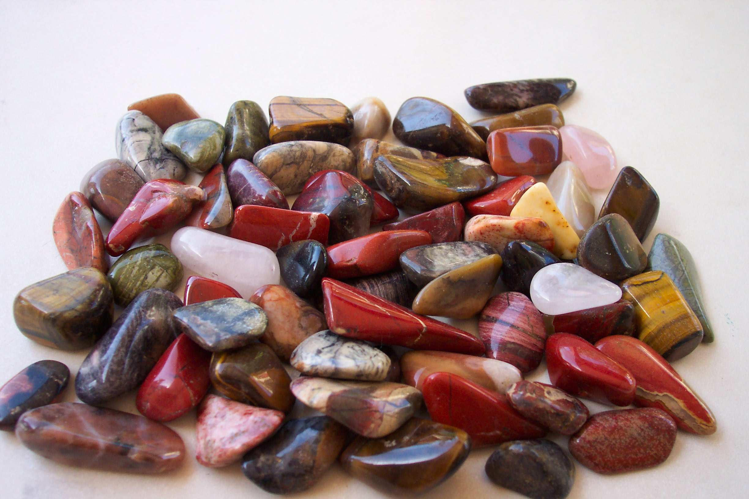 Stones in Israel